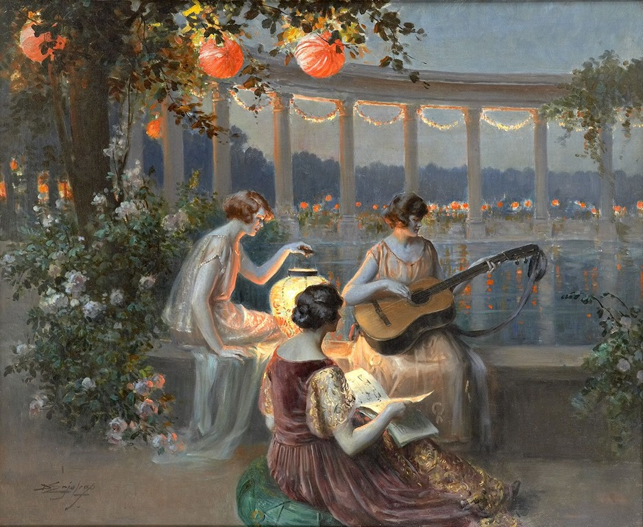 Les musiciennes sur la terrasse